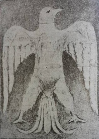 Saladin's eagle which was imprinted on his military banner.